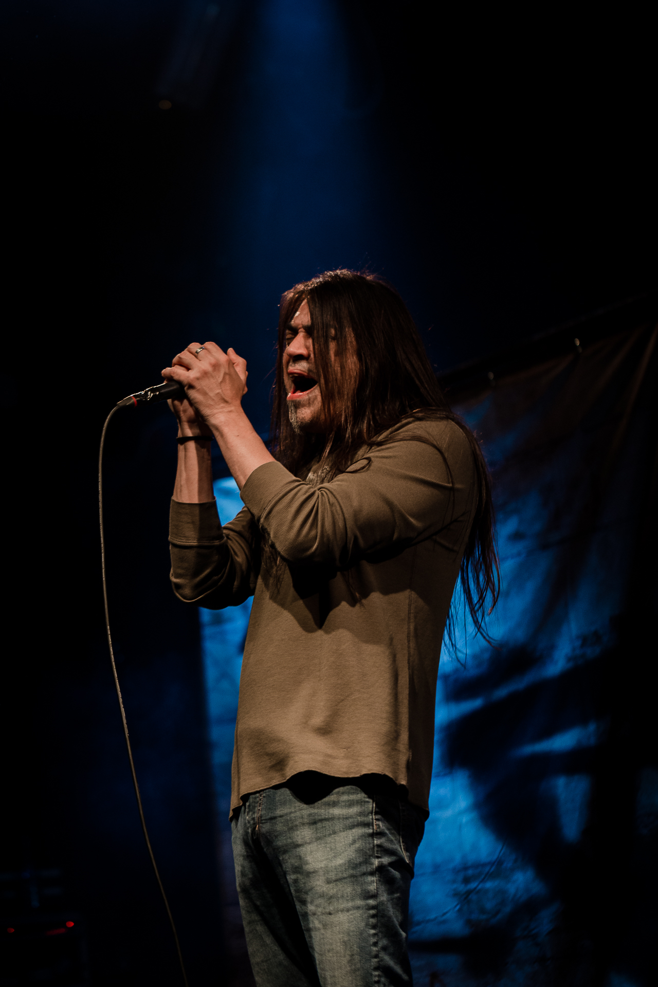 Ray Alder performing with Fates Warning in Majestic Music Club, Bratislava, Slovakia (2017)